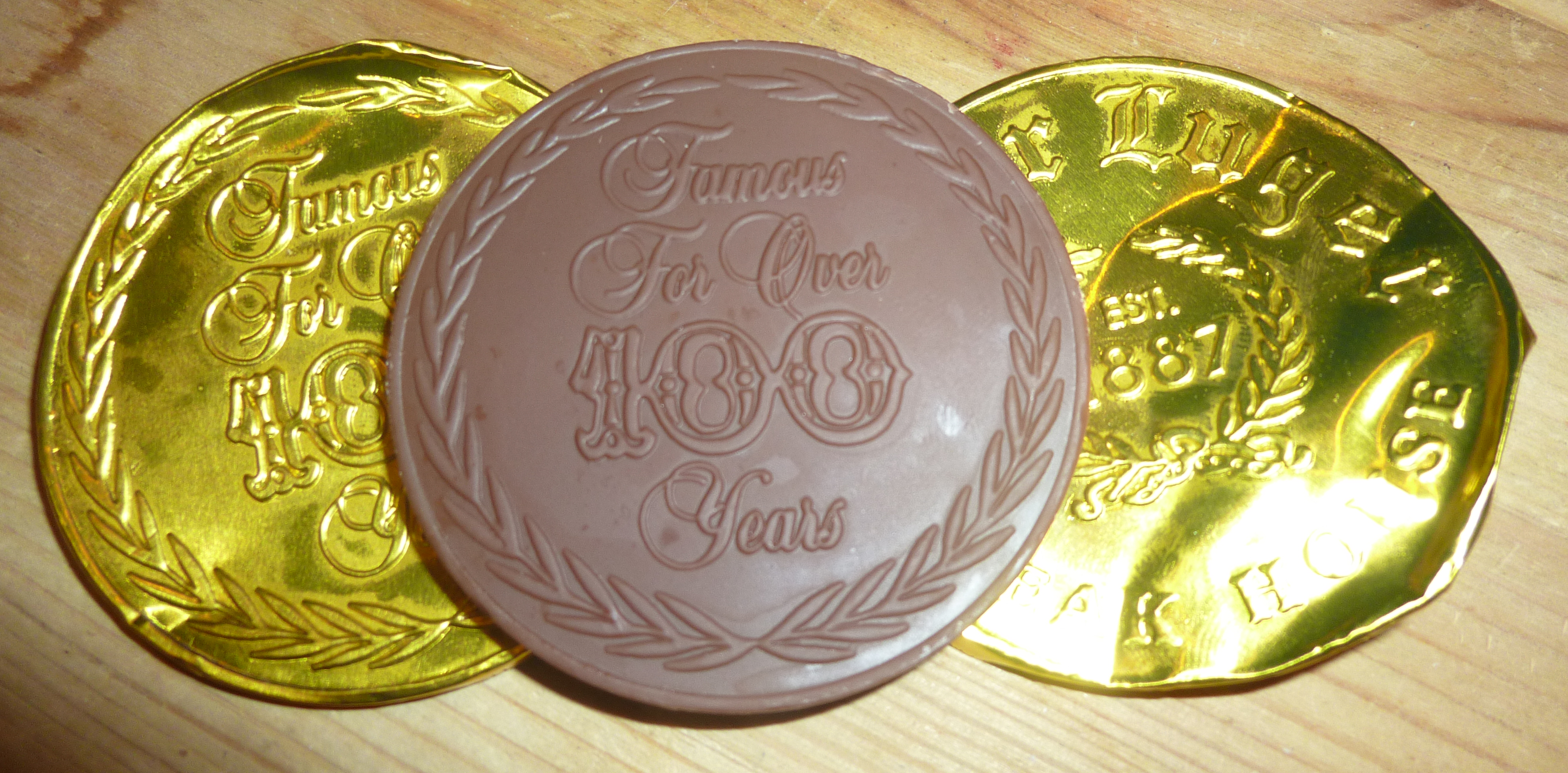 photo of dessert coin from peter luger's restaurant in brooklyn